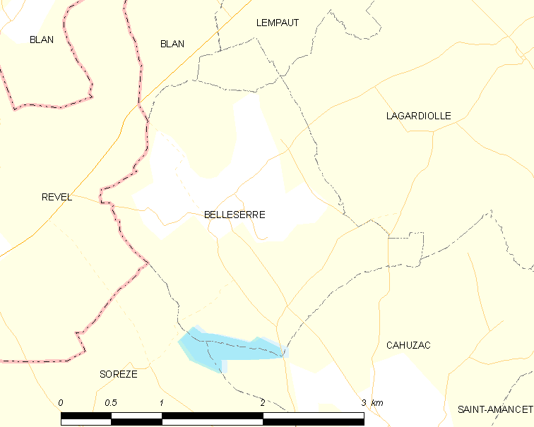 Map of French municipality Belleserre